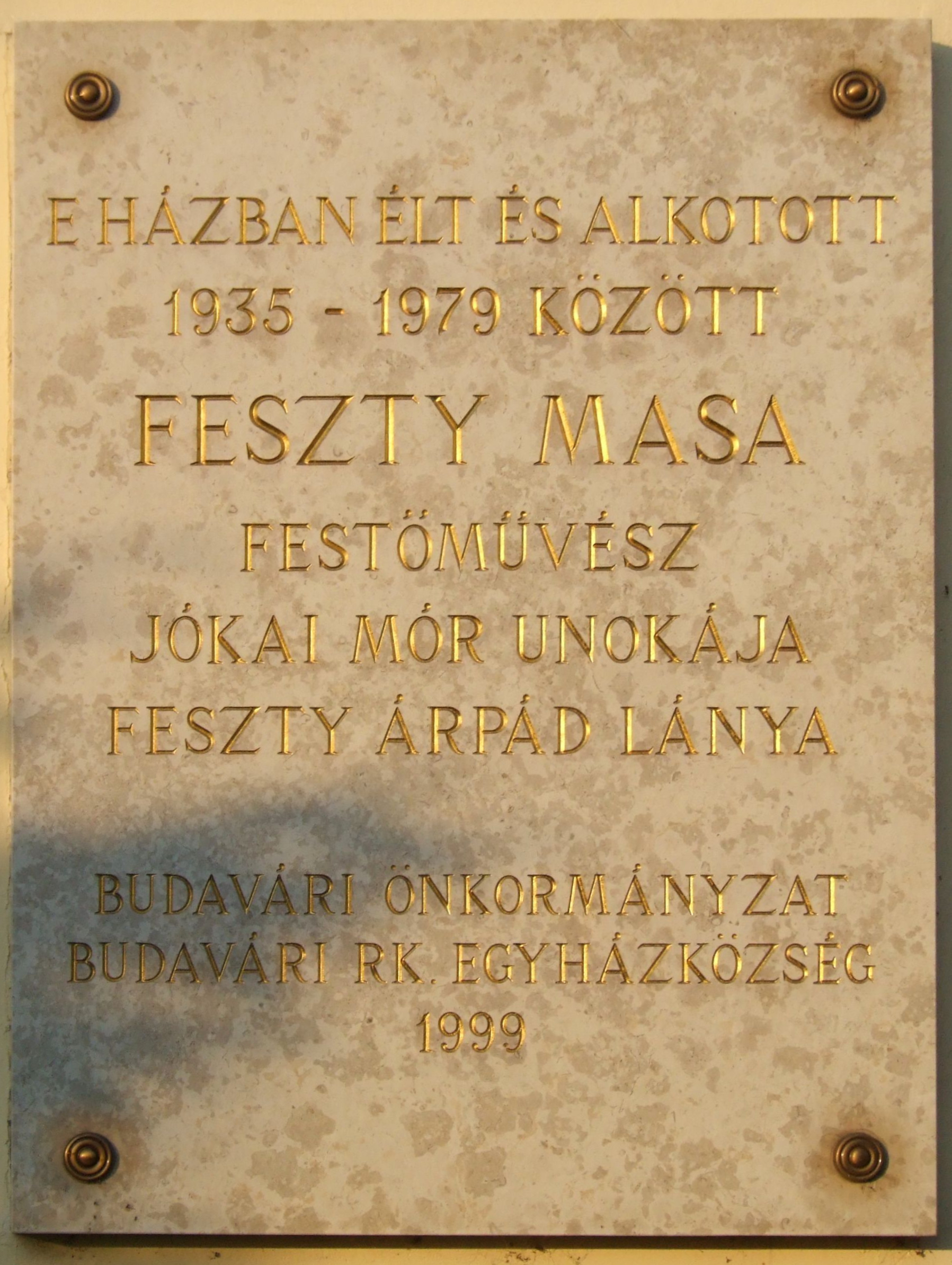 Masa Feszty commemorative plaque in Budapest District I. Tóth Árpád Alley No 6 (?)